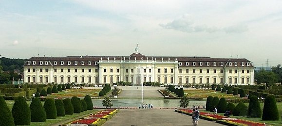 Front view of residential baroque palace built by Duke Eberhard Ludwig, Ludwigsburg Germany